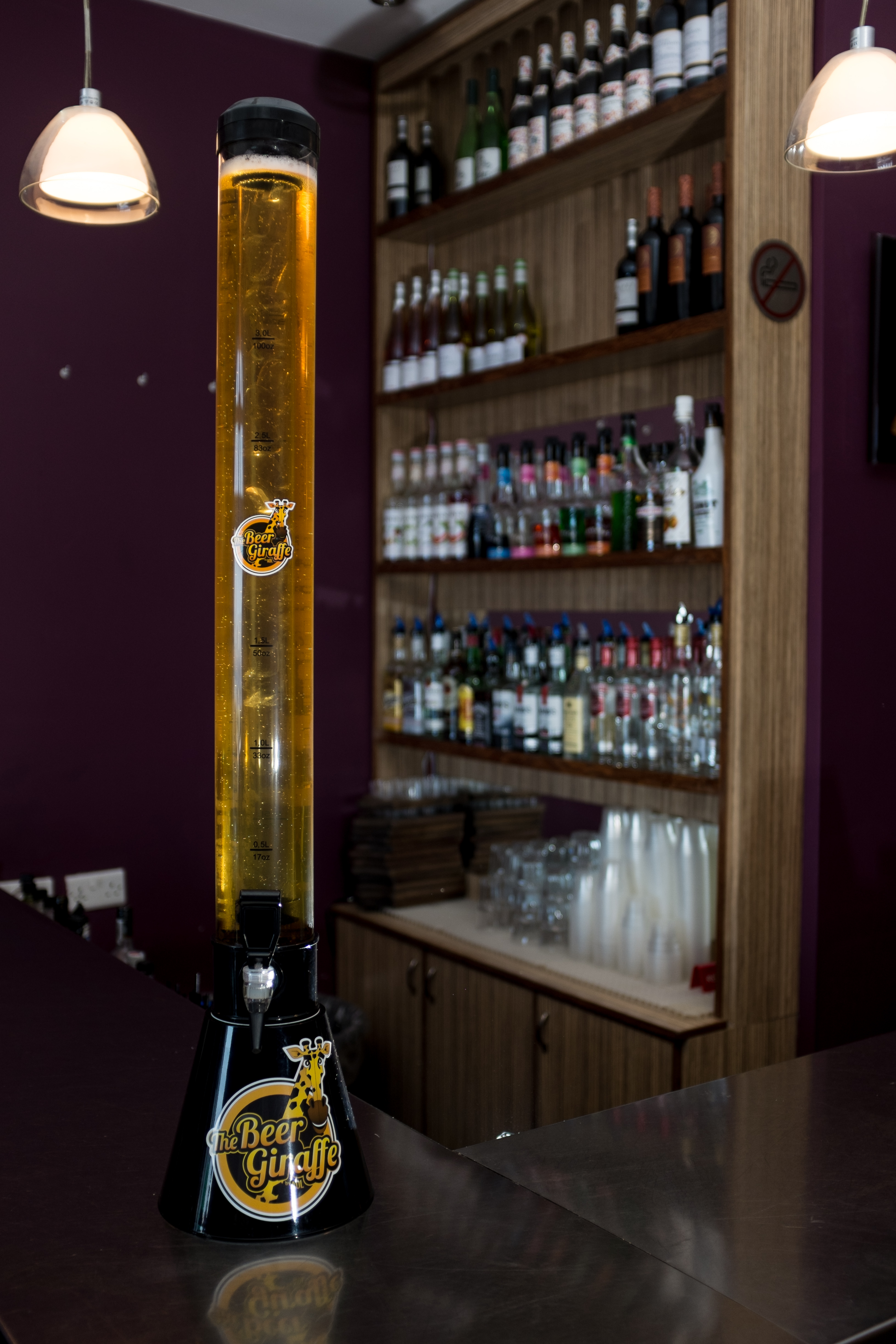 Conic TheBeerGiraffe beer tower